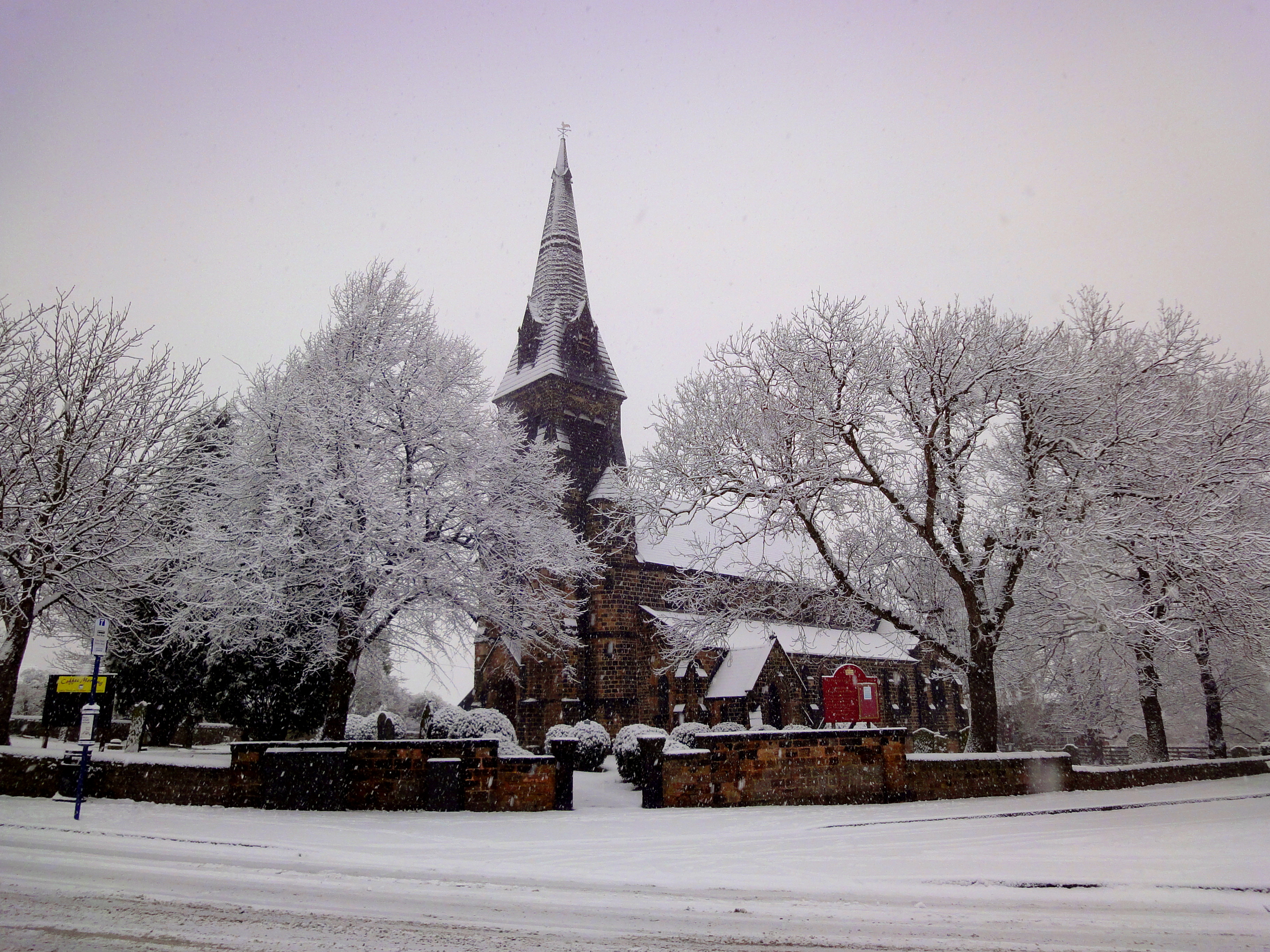 Occupying the highest elevation in Monk Bretton, its spire can be seen for miles - in Winter setting it appears rather picturesque.